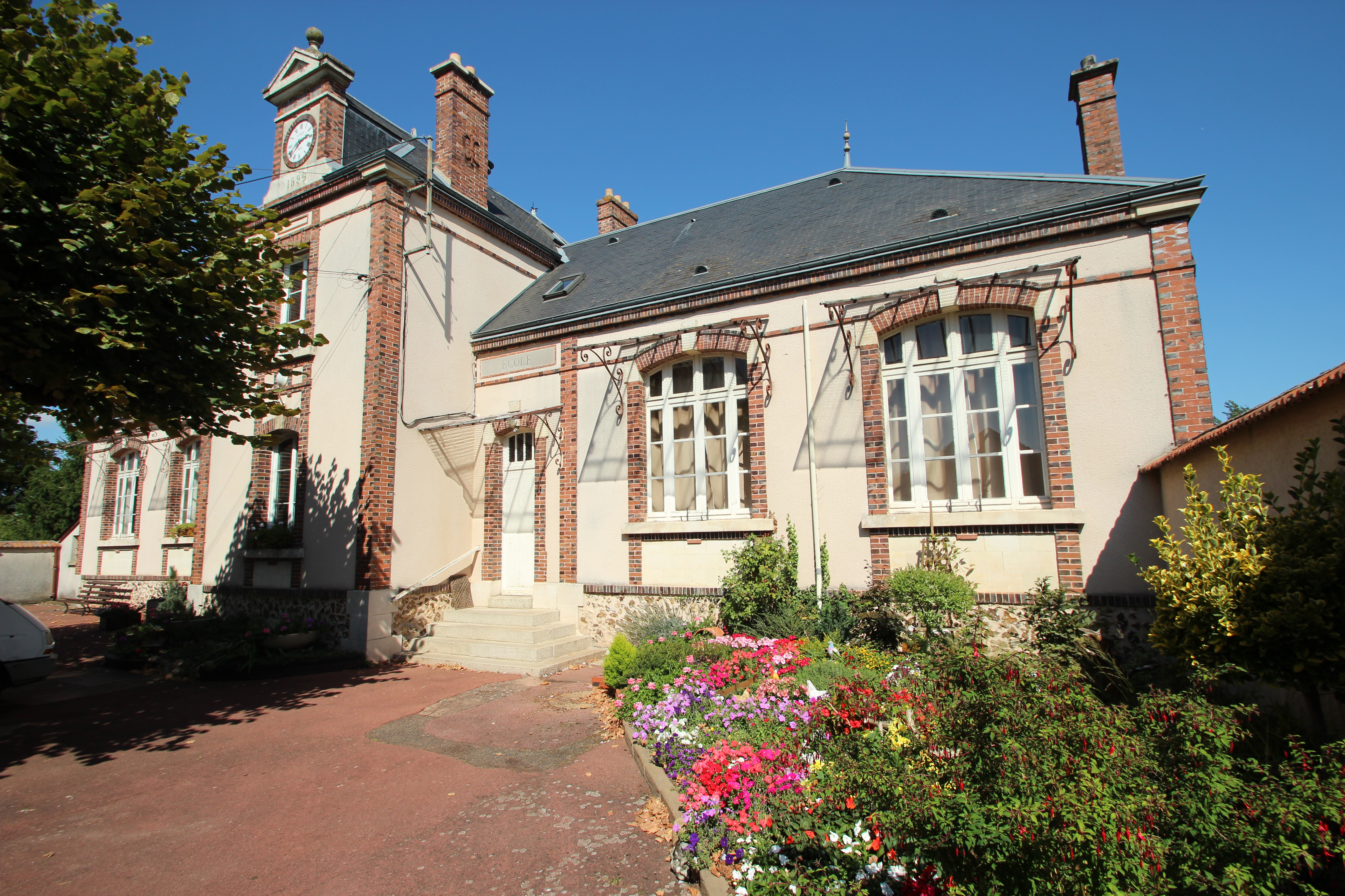 Town hall of Bailleau-Armenonville, France. Object location48° 31′ 55.95″ N, 1° 39′ 11.75″ E